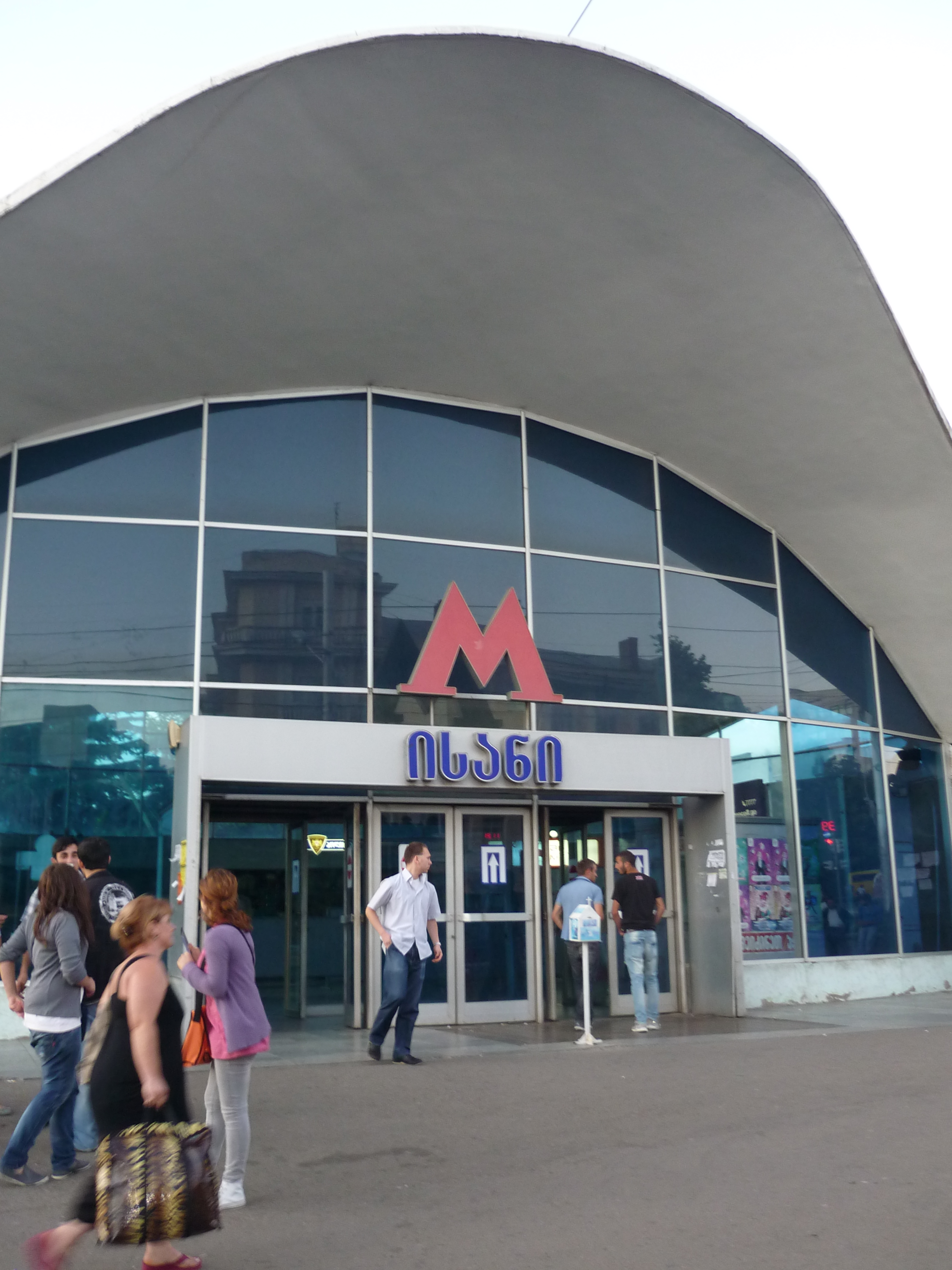 Isani Metro Station - Tbilisi, Georgia